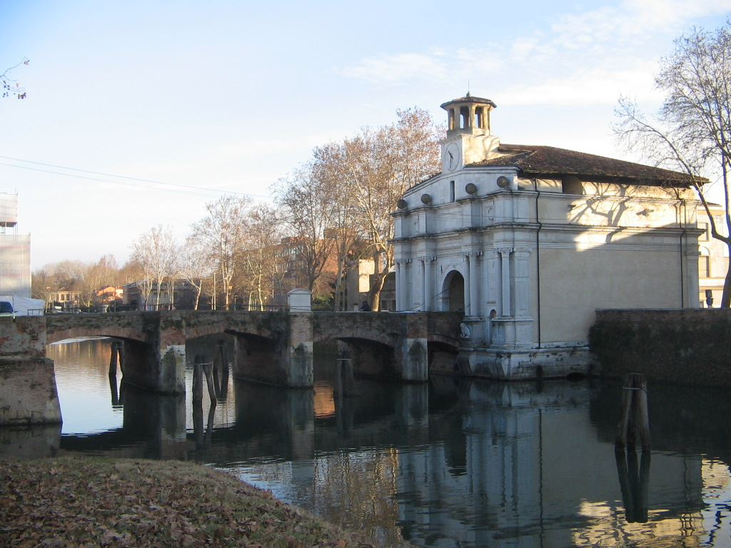 Vista del ponte di Porta Portello, Padova - Italia, in zona universitaria. A view of the Porta Portello bridge, Padua - Italy, in the university zone. Made by Piero tasso the 22 of January, 2006